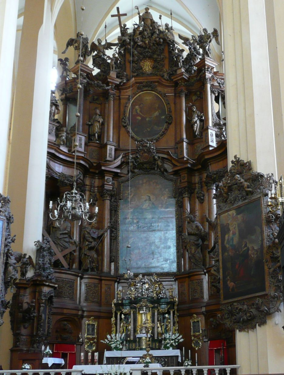 Main altar in Kamieniec Zabkowicki church